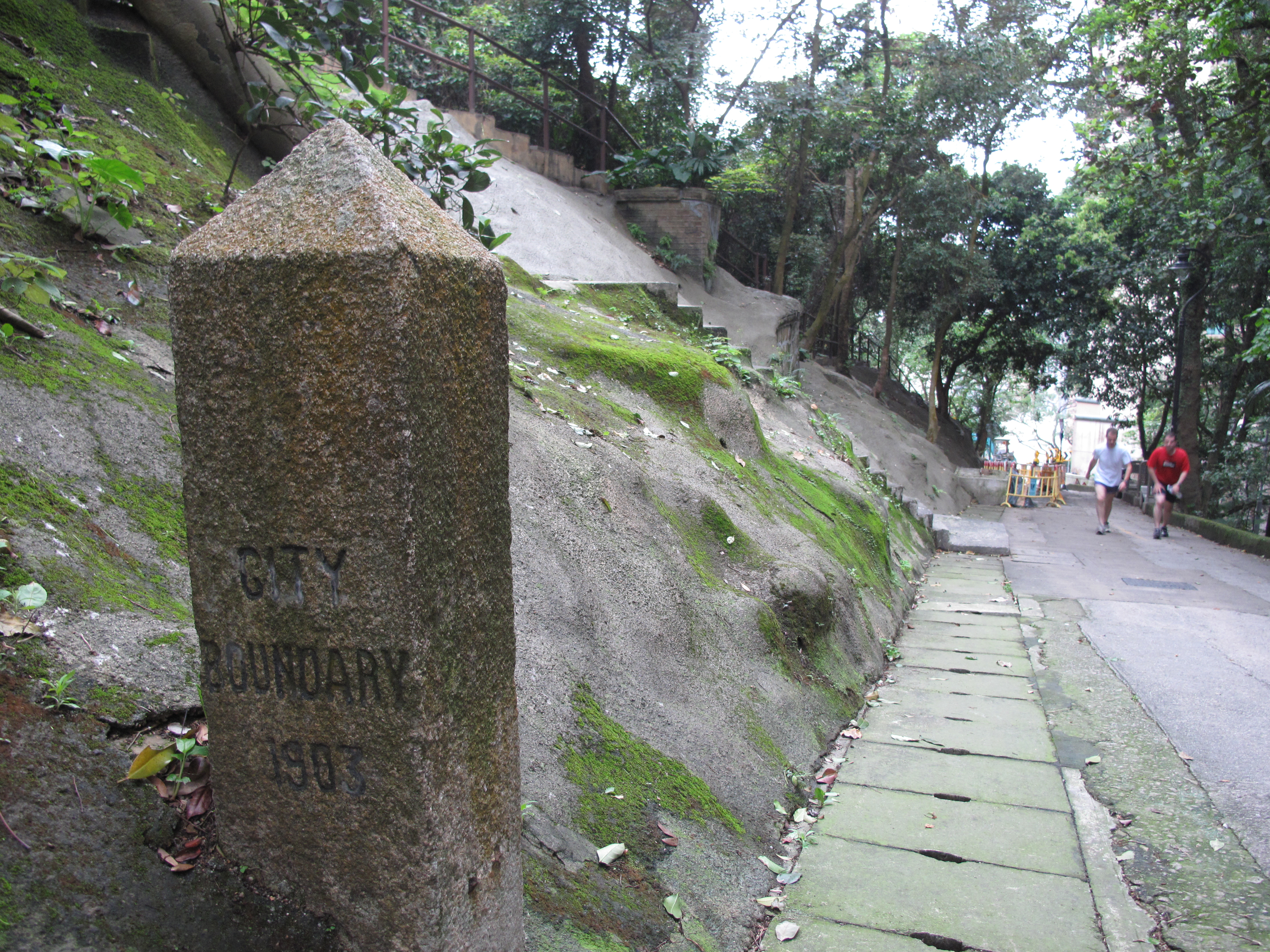 Photo of City Boundary 1903 at Old Peak Road